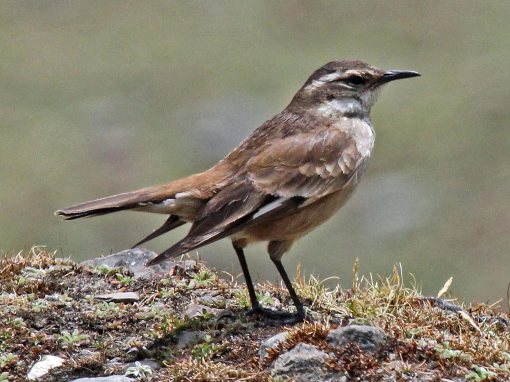 Cream-winged Cinclodes (Cinclodes albiventris) - near Urubamba, Peru